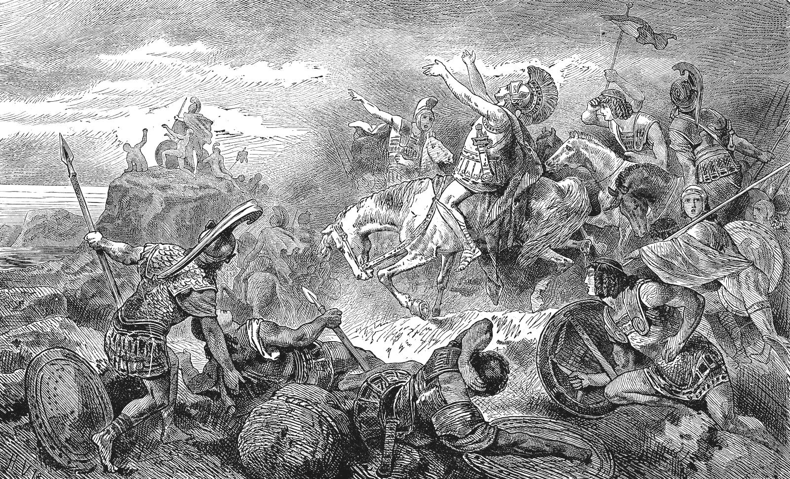 Thálatta! Thálatta! (Greek: Θάλαττα! θάλαττα!; "The Sea! The Sea!"), from the Anabasis of Xenophon. Heroic march of the Ten Thousand Greek mercenaries. 19th-century illustration "The Return of the Ten Thousand under Xenophon."